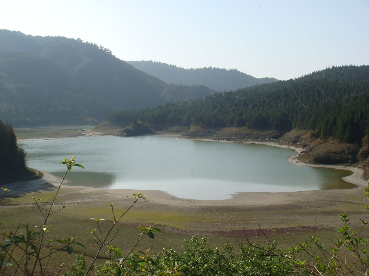 This photograph appears to have been taken in the spring when the water level was quite low.中文（中国大陆）: 这张图在春季拍摄，正值枯水期。